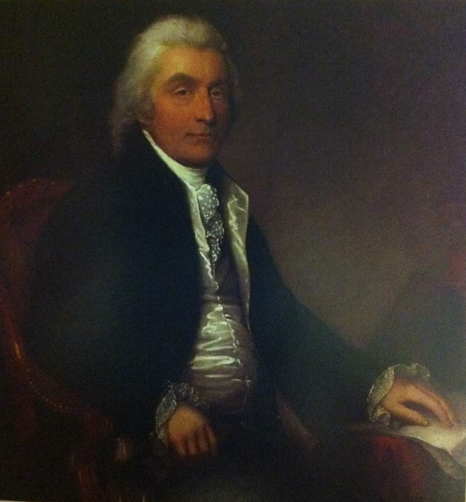 Sir John Wentworth, Governor of Nova Scotia by Robert Field c. 1805